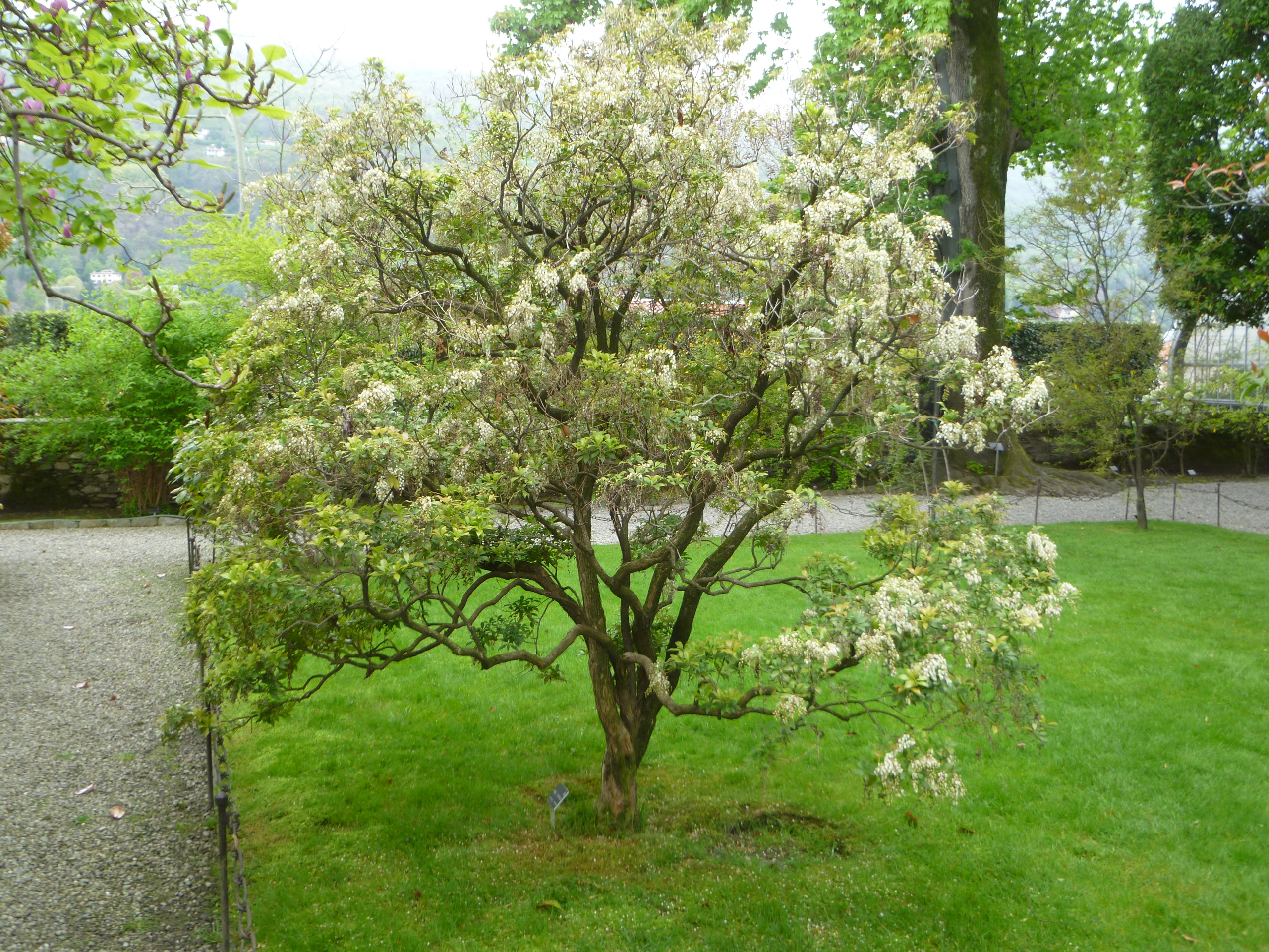 Pieris japonica; family Ericaceae; botanical gardens of the Palazzo Borromeo, Isola Bella, Italy